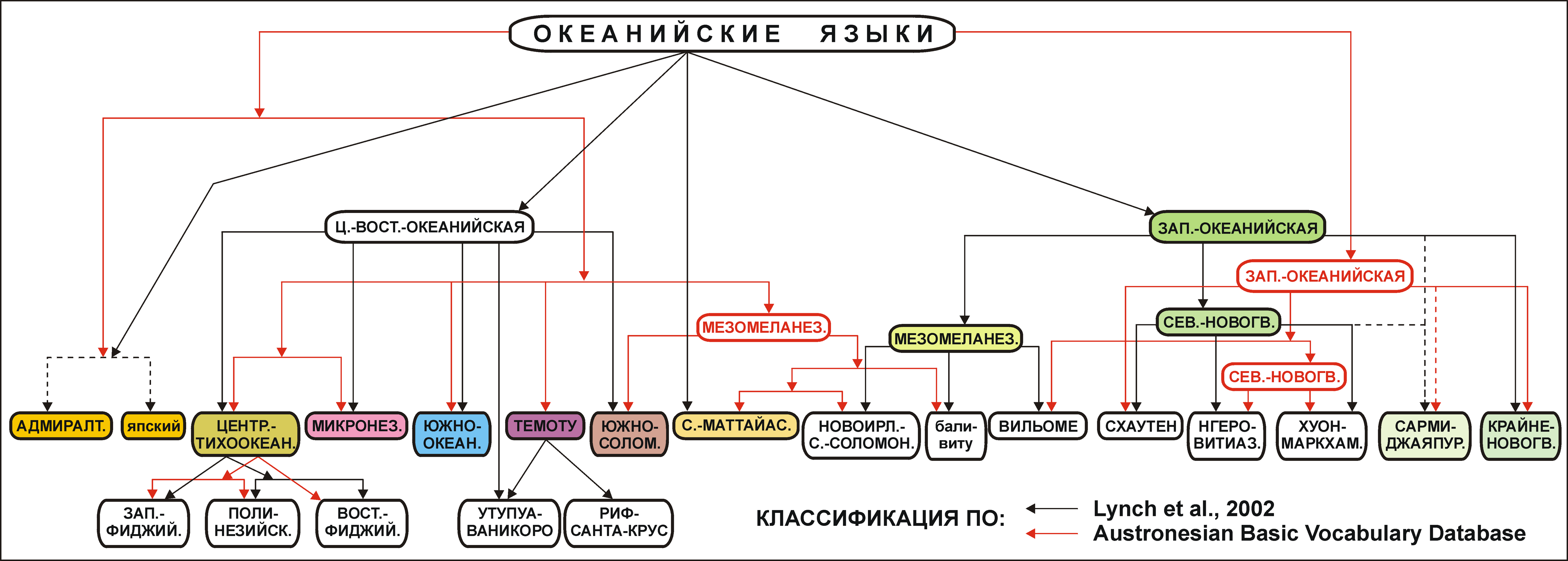 Classification chart of Oceanic languages based on works of Lynch et al. 2002 and Austronesian Basic Vocabulary Database. In Russian.